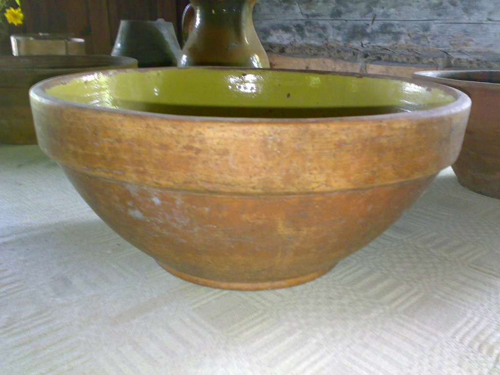 Latgale pottery.